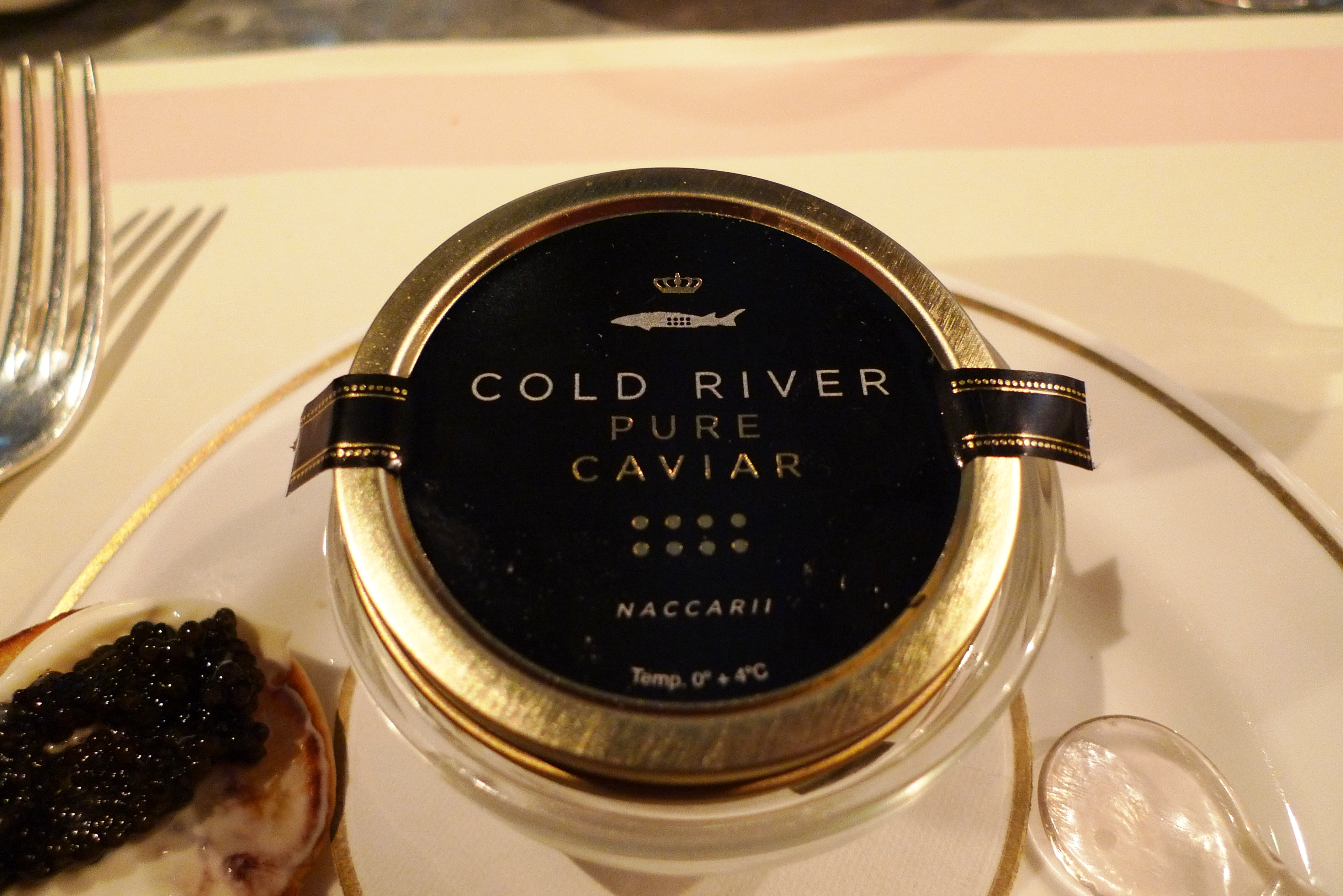 The tin of caviar served for the special lunch menu. At Bob Bob Ricard, Upper James Street.